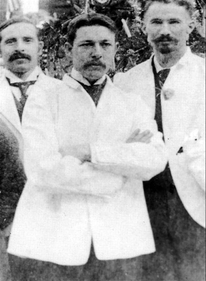 William Coley (1862–1936) in 1892